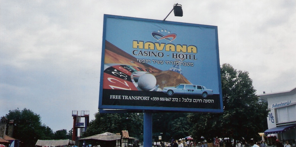 casino ad in hebrew-varna,bulgaria